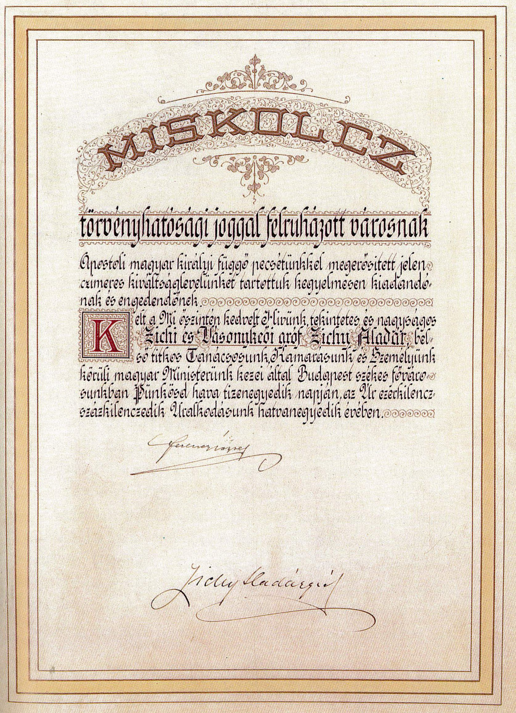 Charta City of Miskolc, 1909